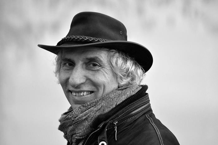 GFerenc Cakó (born 1950) is a Hungarian artist whose specialty is performing sand animation.